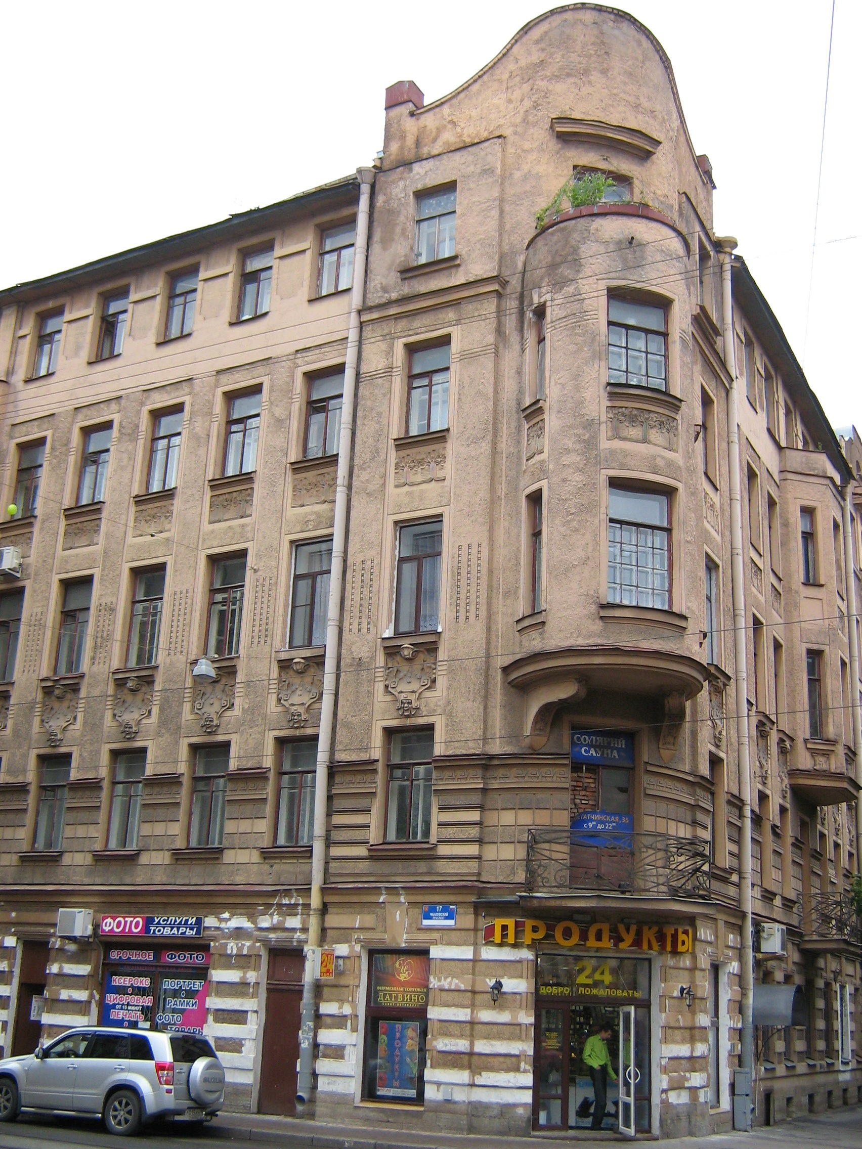 Gatchinskaya street, 35 / Chralovsky avenue, 16, Saint-Petersburg, Russia. Architect P.M.Mulkhanov, 1907.